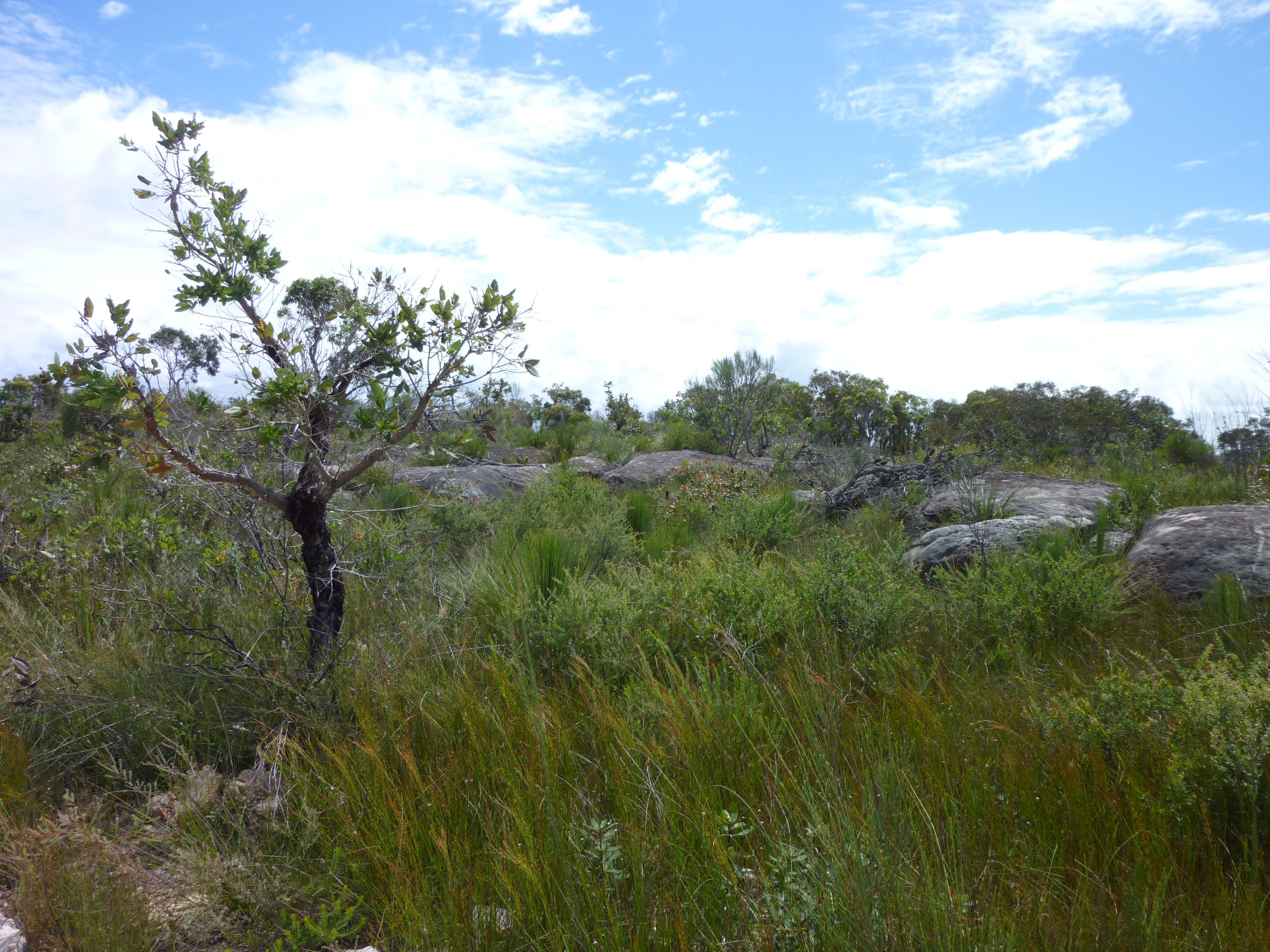 heathland at Ku-ring-gai-Chase Nationalpark